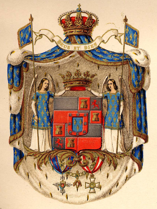 Coat of arms of duchy of Lucca